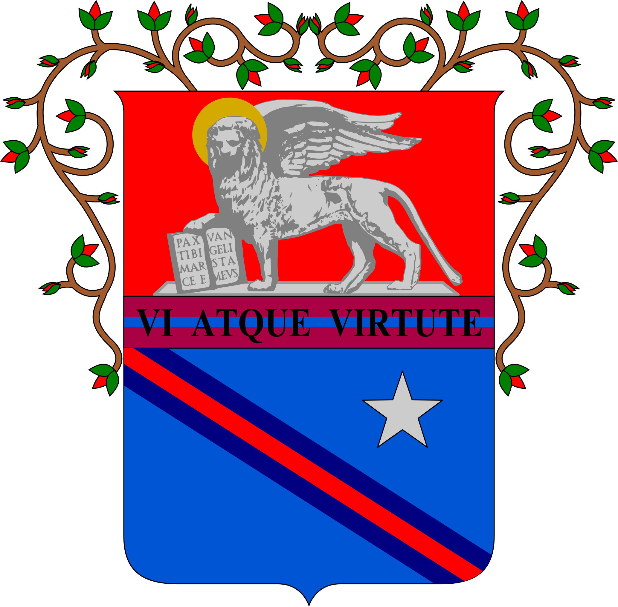 Coat of Arms of the 83rd Infantry Regiment "Venezia", Royal Italian Army, 1939 - Winged Lion modified from artwork by user user:Tonchino, released to public domain (see File:Leone di san Marco.png)